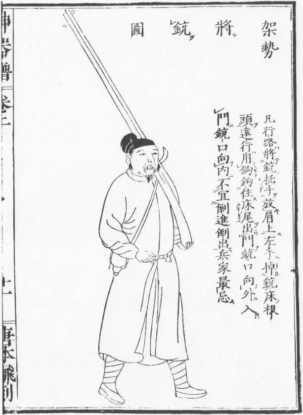 Musketeer